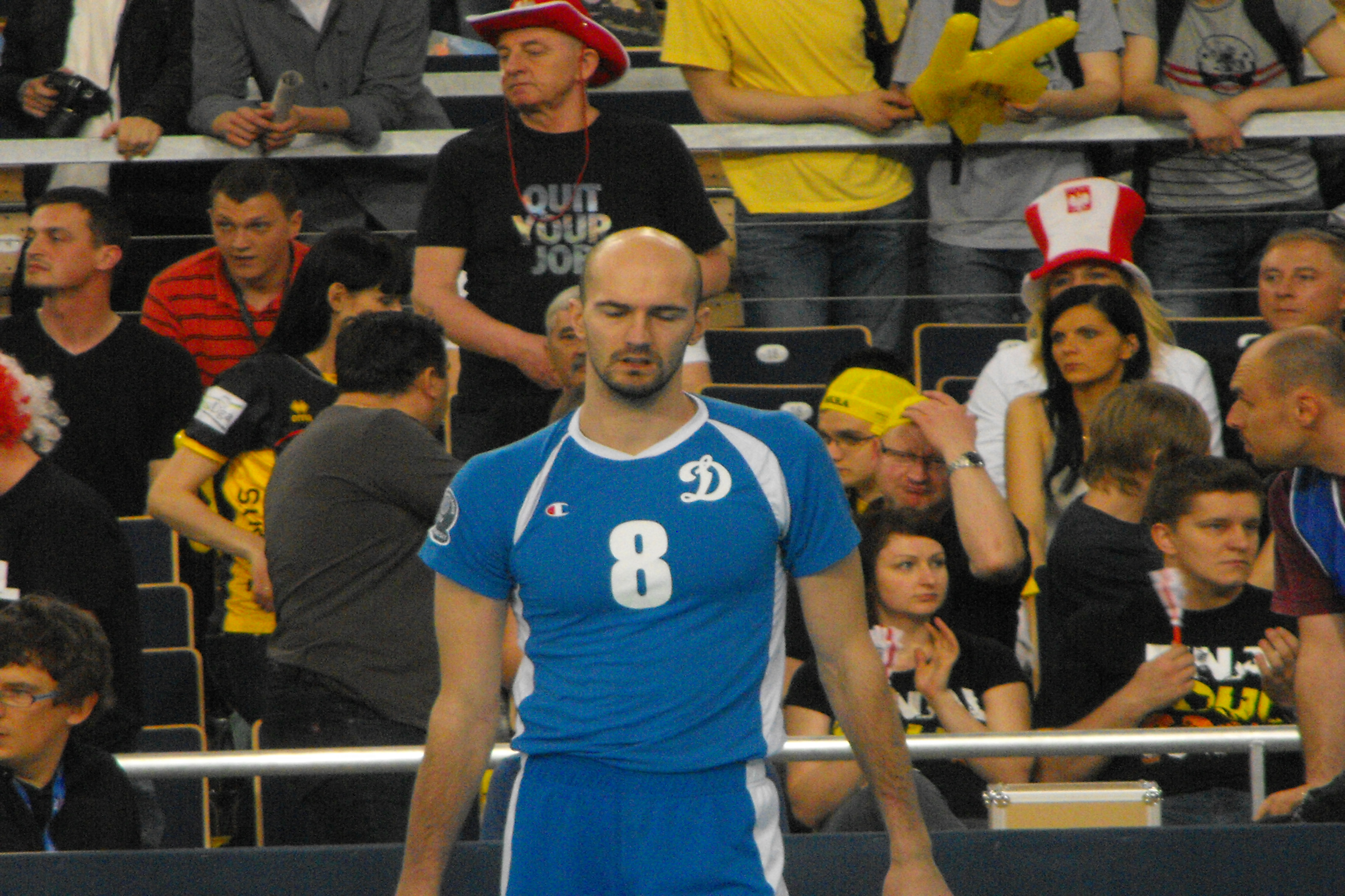 Semyon Poltavskiy while Final Four Champions League 2010 in Lodz (Atlas Arena).